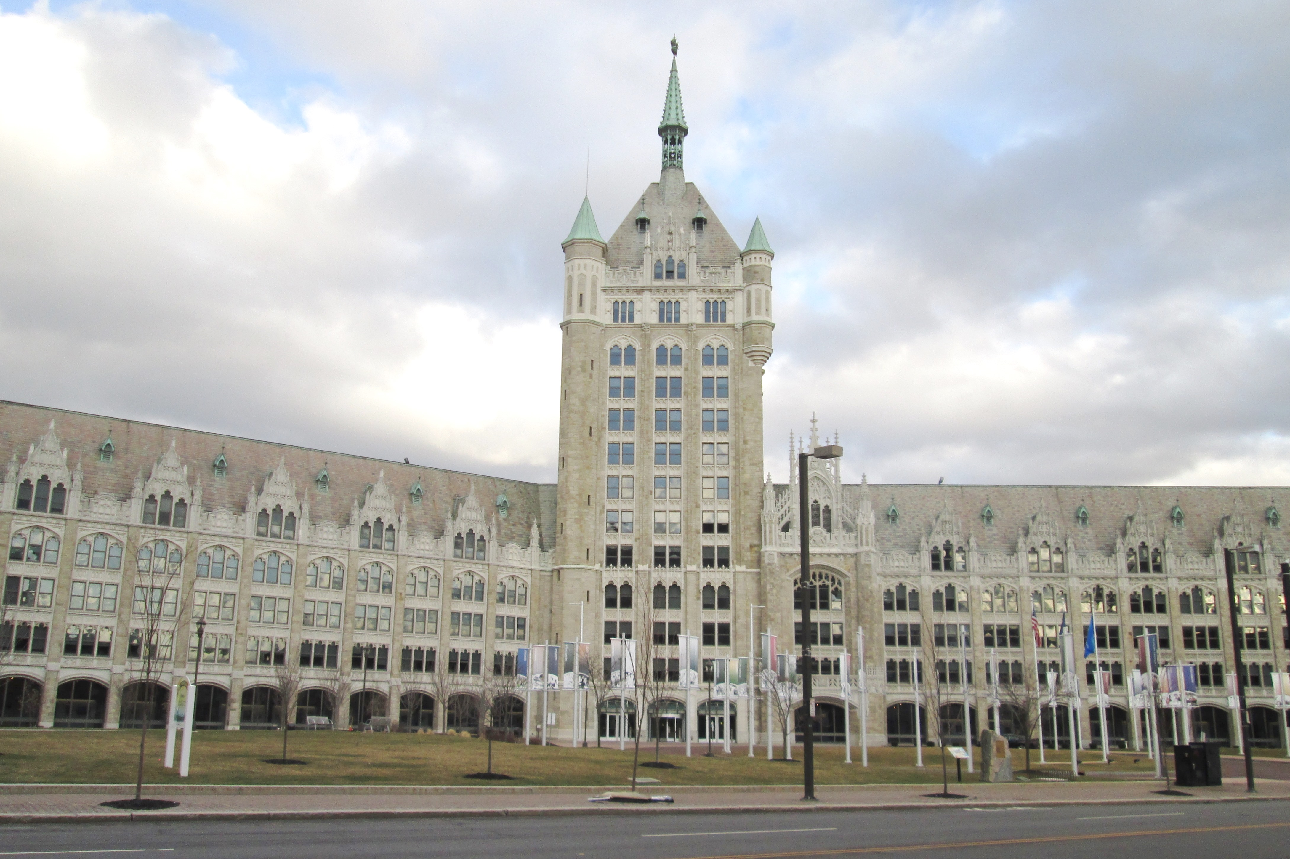 SUNY Plaza, located at 353 Boadway at the intersection with State Street in Albany, New York, houses the central administrative offices of the State University of New York system. Formerly the Delaware and Hudson Railway Building, it was designed in the Flemish Gothic style by Marcus T. Reynolds, and constructed in sections between 1914 and 1918. The central section, including the five-story block at the north end and the thirteen-story tower, connected by the long five-story diagonal wing, was built in 1914-15. Another five-story wing south of the central tower was constructed in 1915-1918; in 1916-1918 a separate but architecturally-compatible and physically-connected building was constructed at the south end to be the headquarters of the Albany Evening Journal. Another section, a freight terminal at the north end was later demolished. (Source: "A History of the D&H Building, our SUNY Plaza" SUNY website)